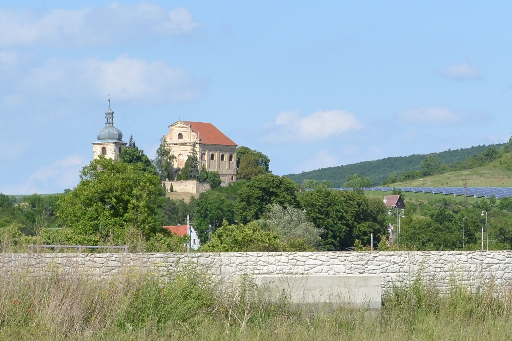 Trinity Church and bell tower, Křešice-Zahořany, Ústí nad Labem region, Czech Republic.